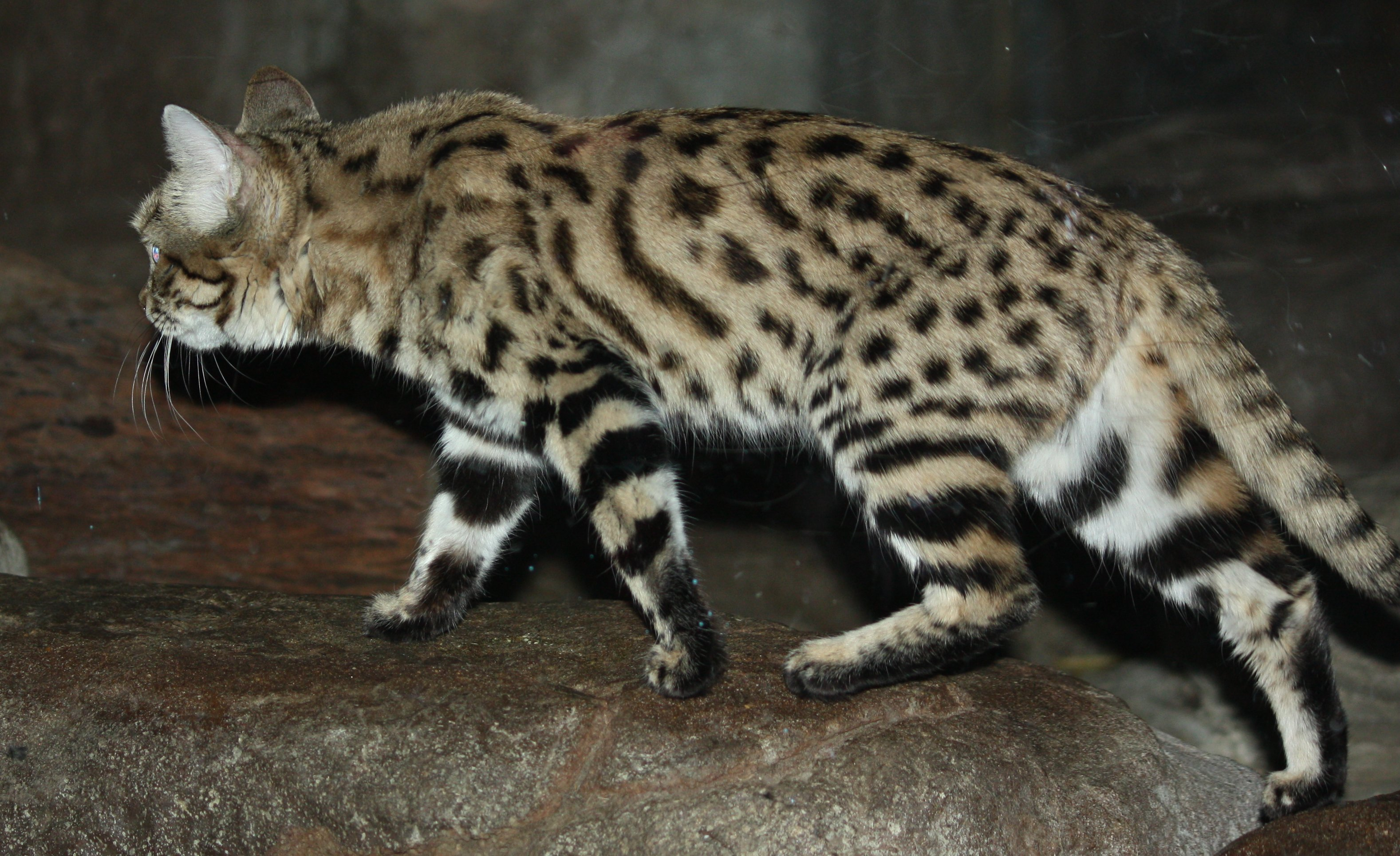 Black Footed Cat Felis nigripes at Cincinnati Zoo